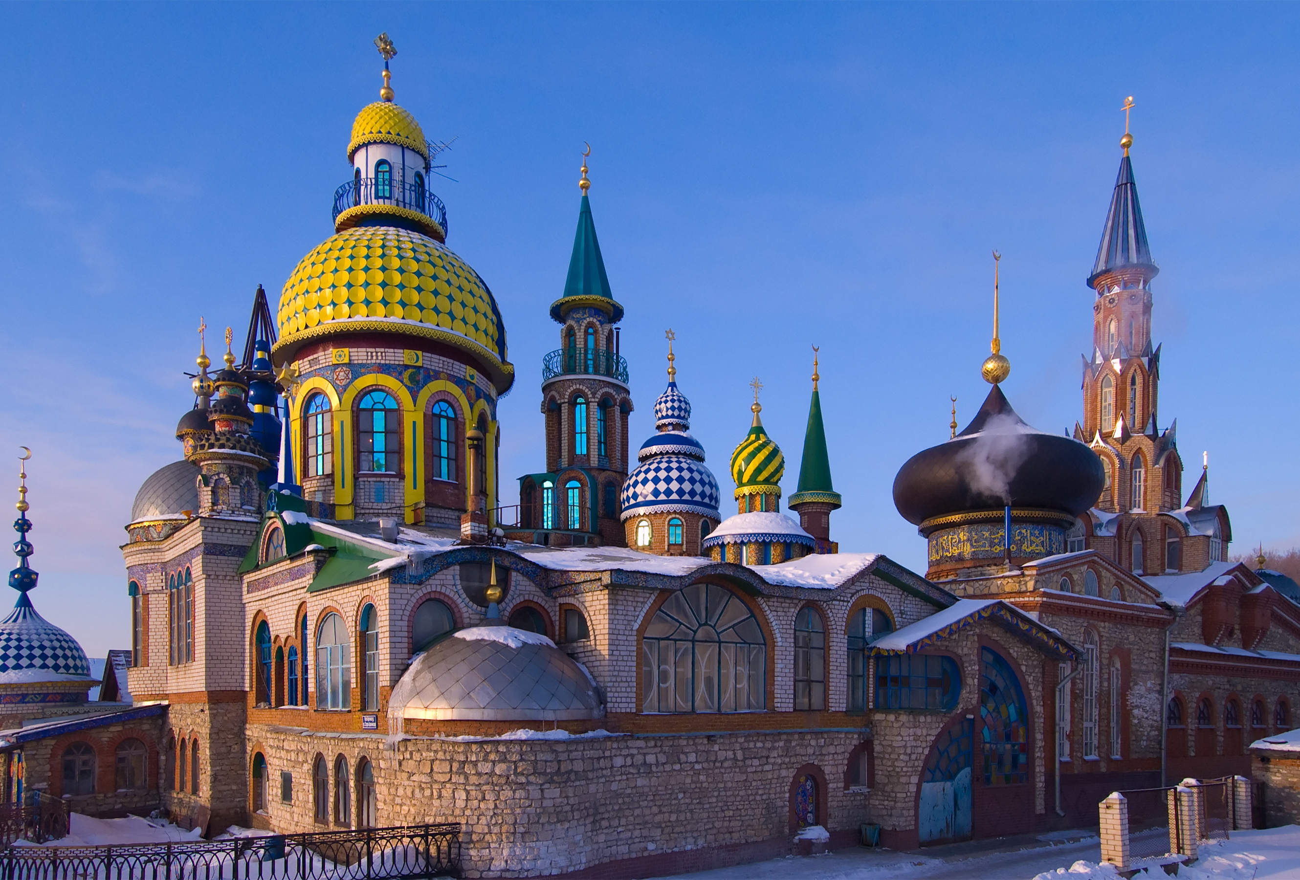 All Religions Temple. A building and cultural center build by the local artist Ildar Xanov.